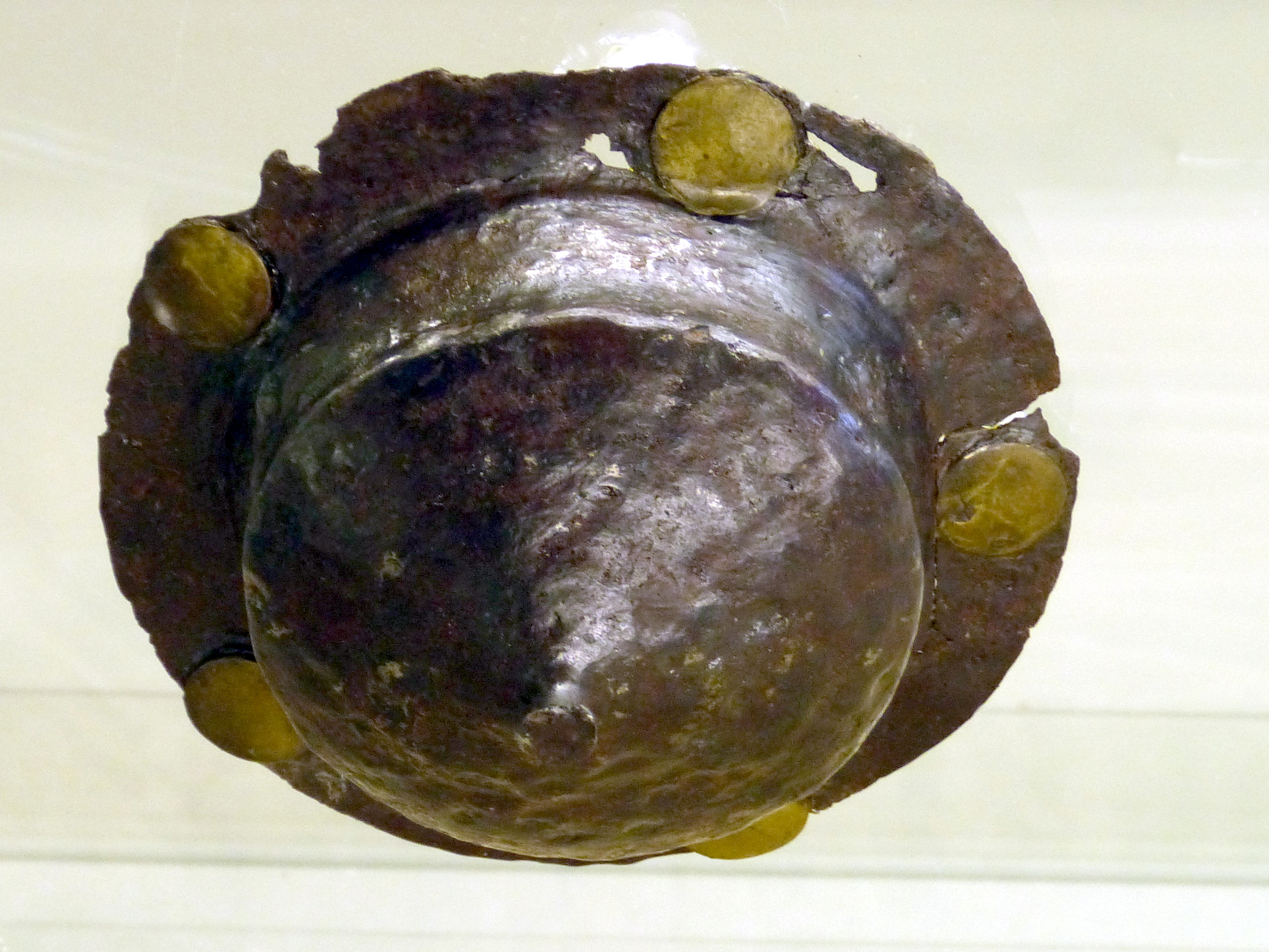 Kelheim ( Lower Bavaria ). Archaeological Museum: Shield boss ( 6th century AD ) from grave 42 of the Bawarian cemetery in Kelheim-Gmünd..